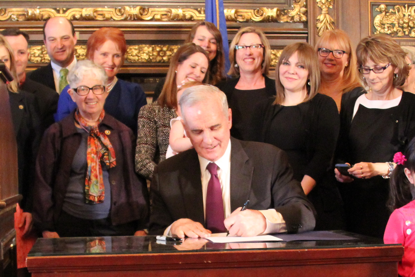 Governor Dayton Signs Women’s Economic Security Act into law